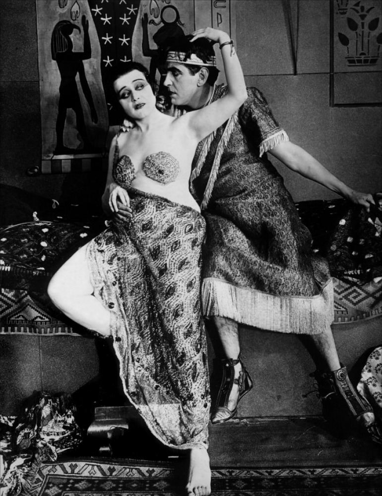 Theda Bara (Cleopatra) and Thurston Hall (Mark Antony) in Cleopatra - cropped screenshot